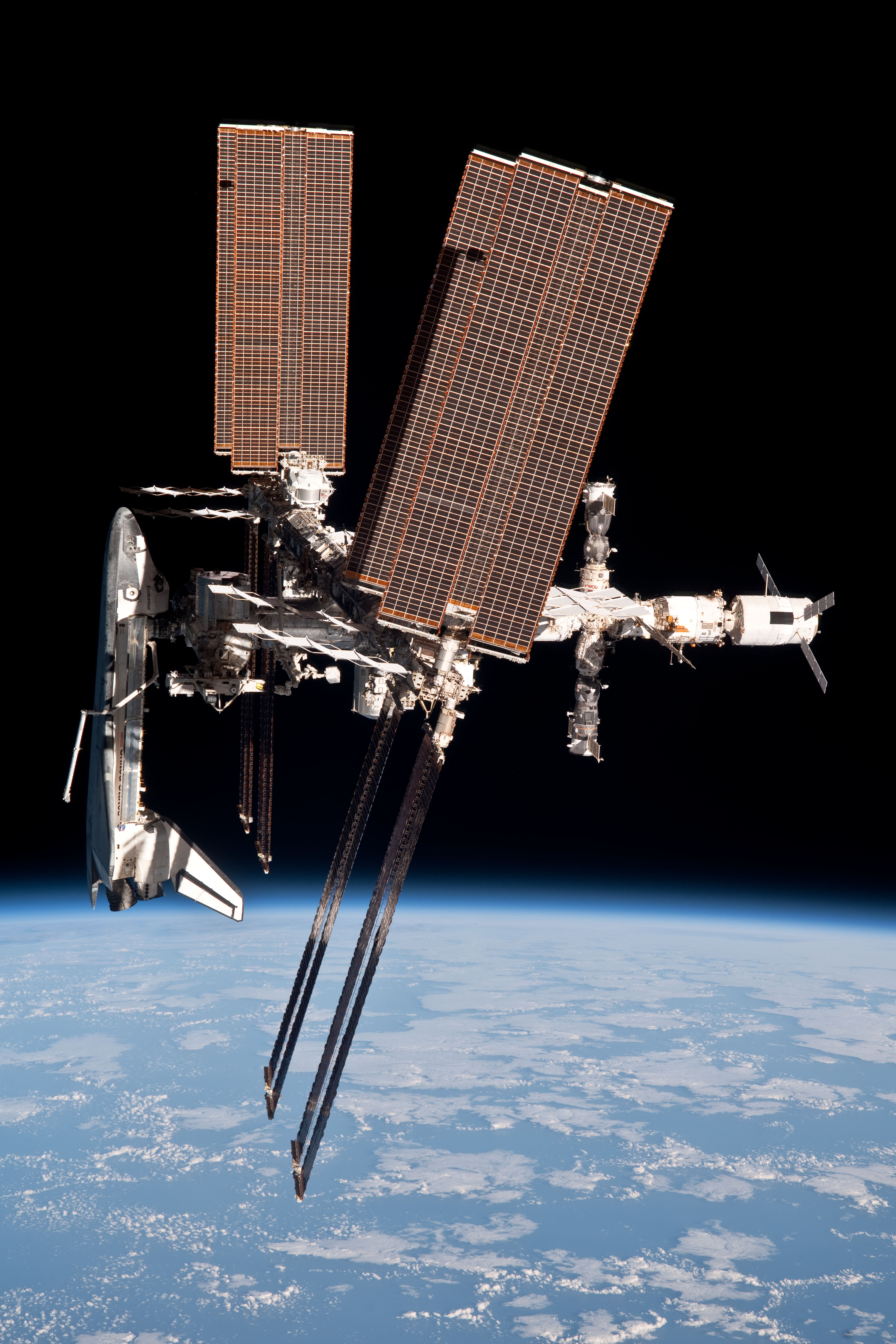 This image of the International Space Station and the docked space shuttle Endeavour, flying at an altitude of approximately 220 miles, was taken by Expedition 27 crew member Paolo Nespoli from the Soyuz TMA-20 following its undocking on May 23, 2011 (USA time). The pictures taken by Nespoli are the first taken of a shuttle docked to the International Space Station from the perspective of a Russian Soyuz spacecraft. Onboard the Soyuz were Russian cosmonaut and Expedition 27 commander Dmitry Kondratyev; Nespoli, a European Space Agency astronaut; and NASA astronaut Cady Coleman. Coleman and Nespoli were both flight engineers. The three landed in Kazakhstan later that day, completing 159 days in space. This was the final mission of Endeavour.